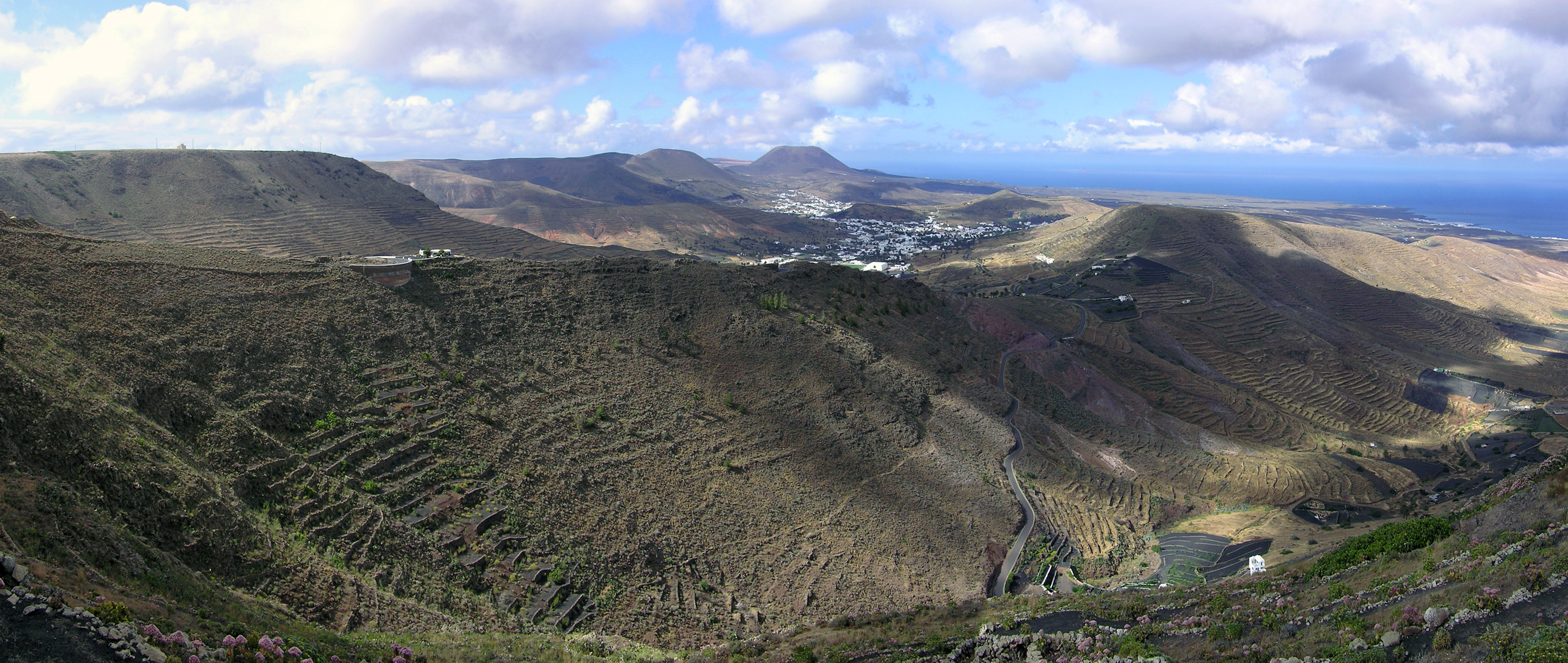 View looking east from the LZ-10 road (Teguise to Haria).